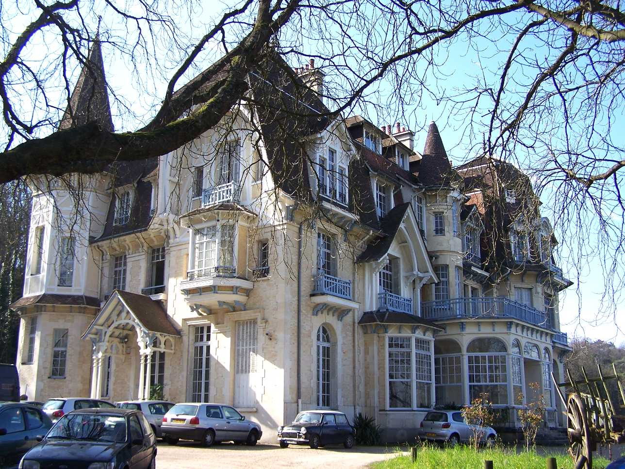 Castle of Prunay in Louveciennes (Yvelines, France)